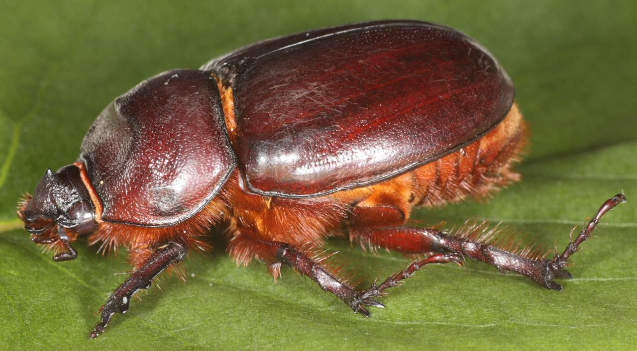 European rhinoceros beetle (Oryctes nasicornis) female